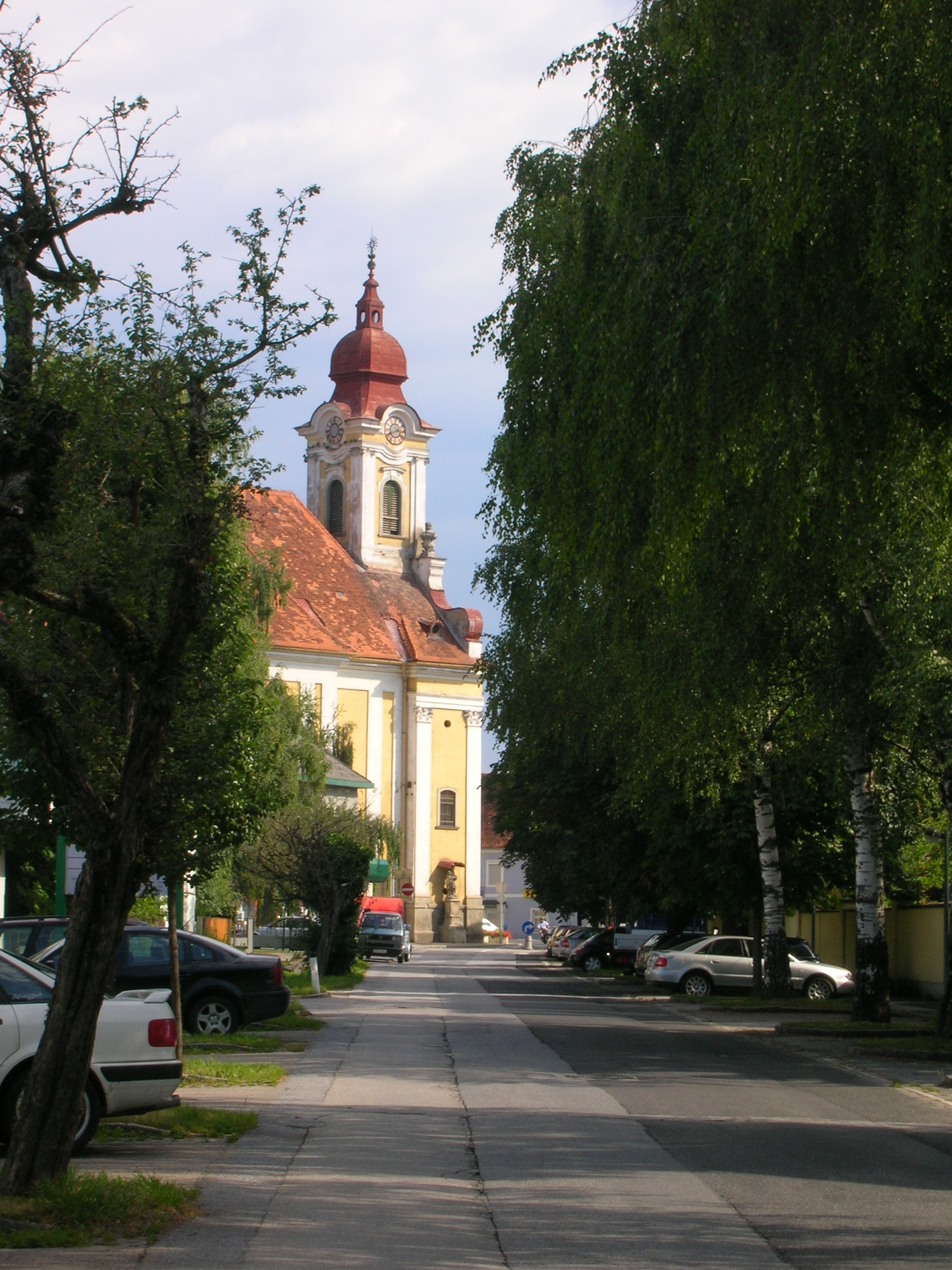 church in Gleisdorf, a small city in Eastern Styria